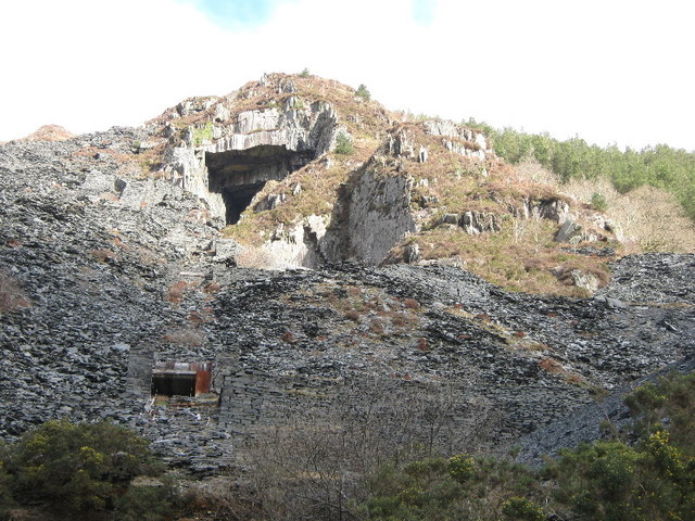 Cave quarry on Foel Crochan